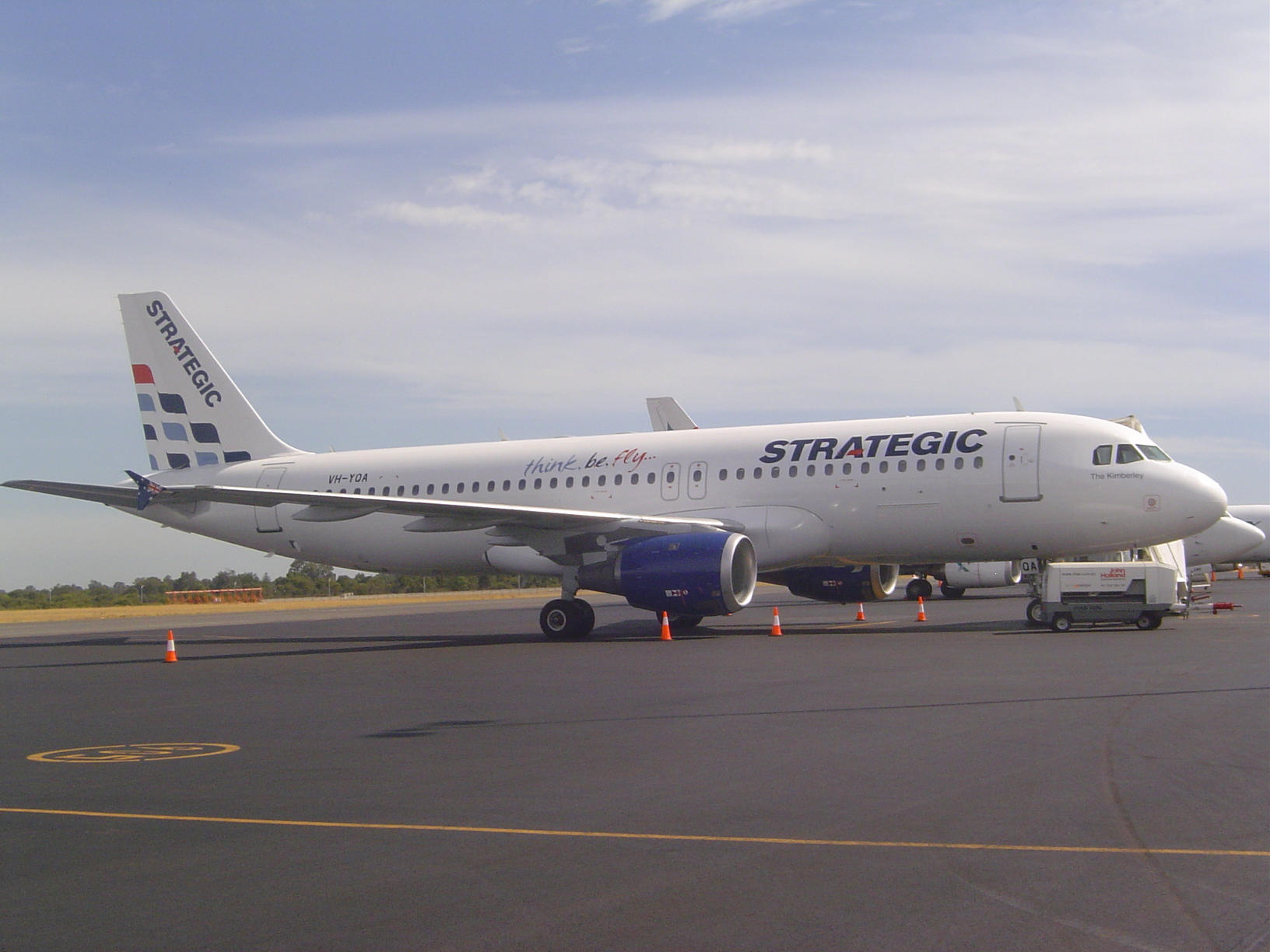 Strategic Airlines Airbus A320 VH-YQA